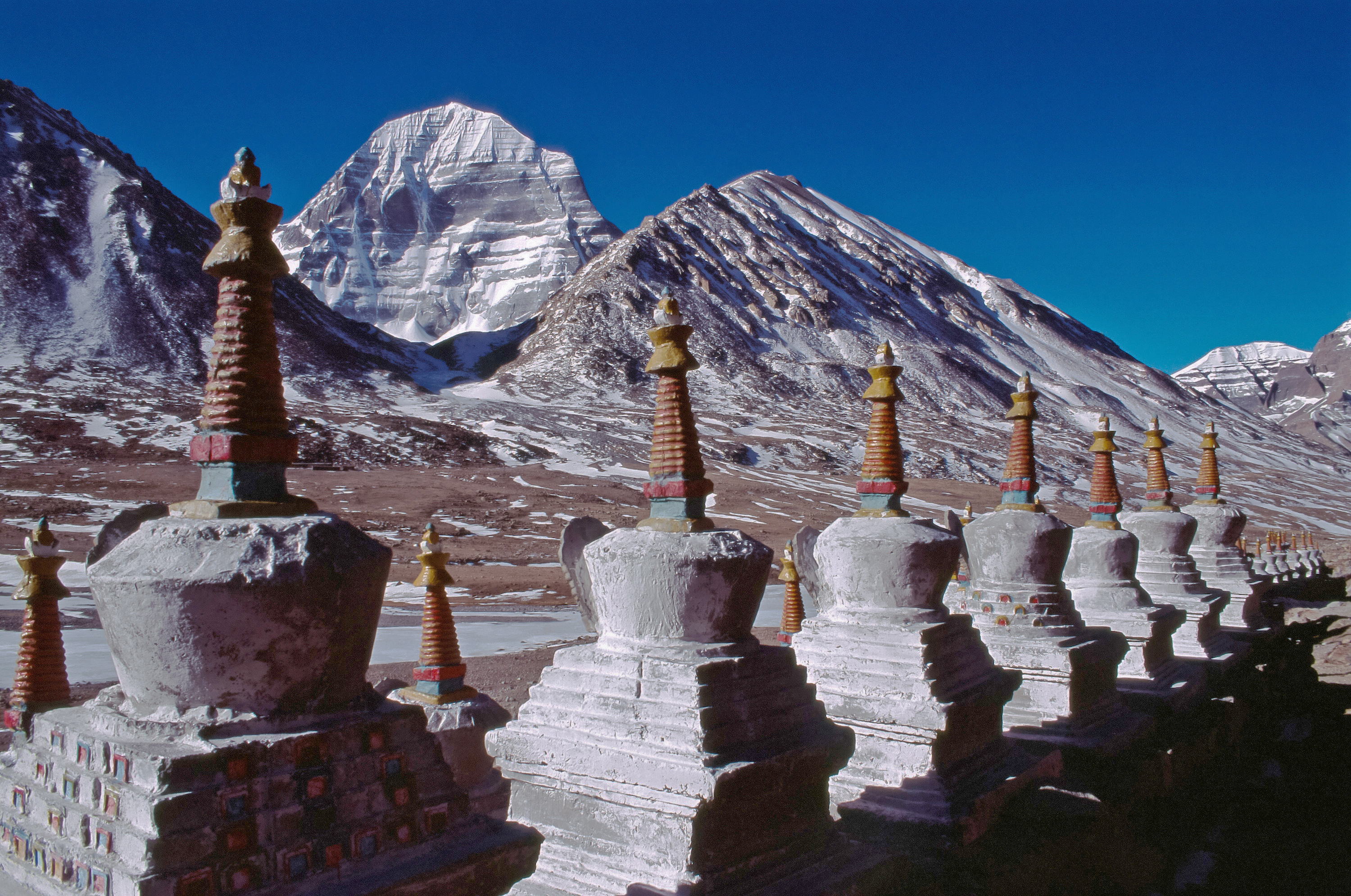 Chortens and Mount Kailash north face